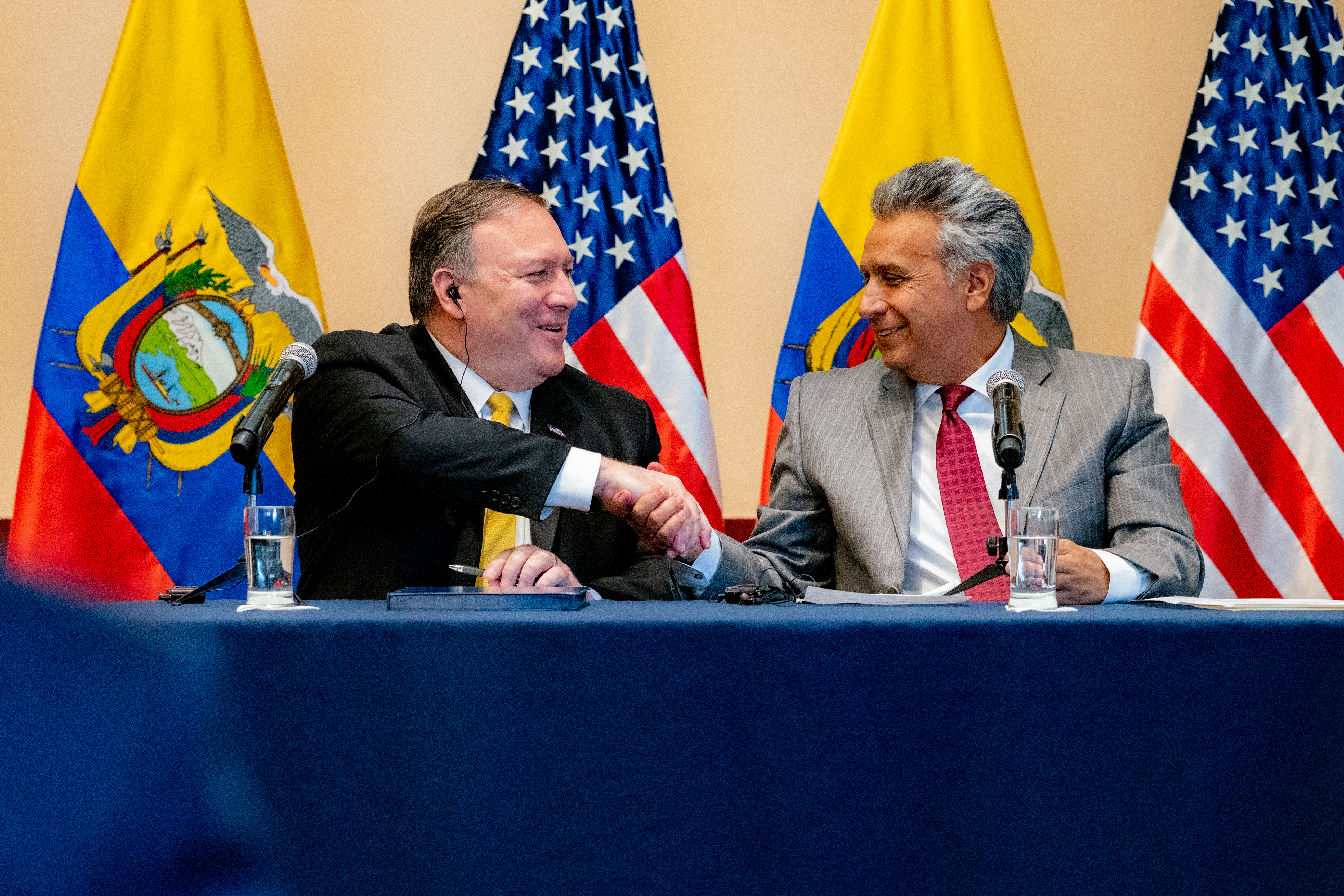 U.S. Secretary of State Michael R. Pompeo holds a joint press conference with Ecuadorian President Lenin Moreno, in Guayaquil, Ecuador, July 20, 2019. [State Department photo by Ron Przysucha/ Public Domain]